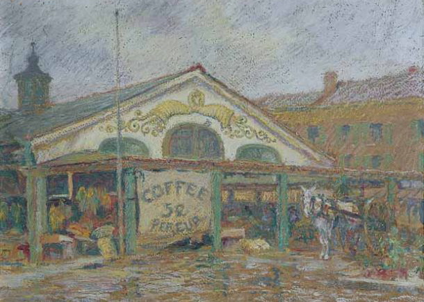 "Coffee five cents per cup: Poydras Market", New Orleans, 1905. Painting by artist William Woodward (1859-1939).